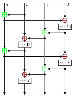 Diagram of the quarterround function for ChaCha encryption